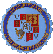 Seal of Kent County, Maryland, adopted in 1692.